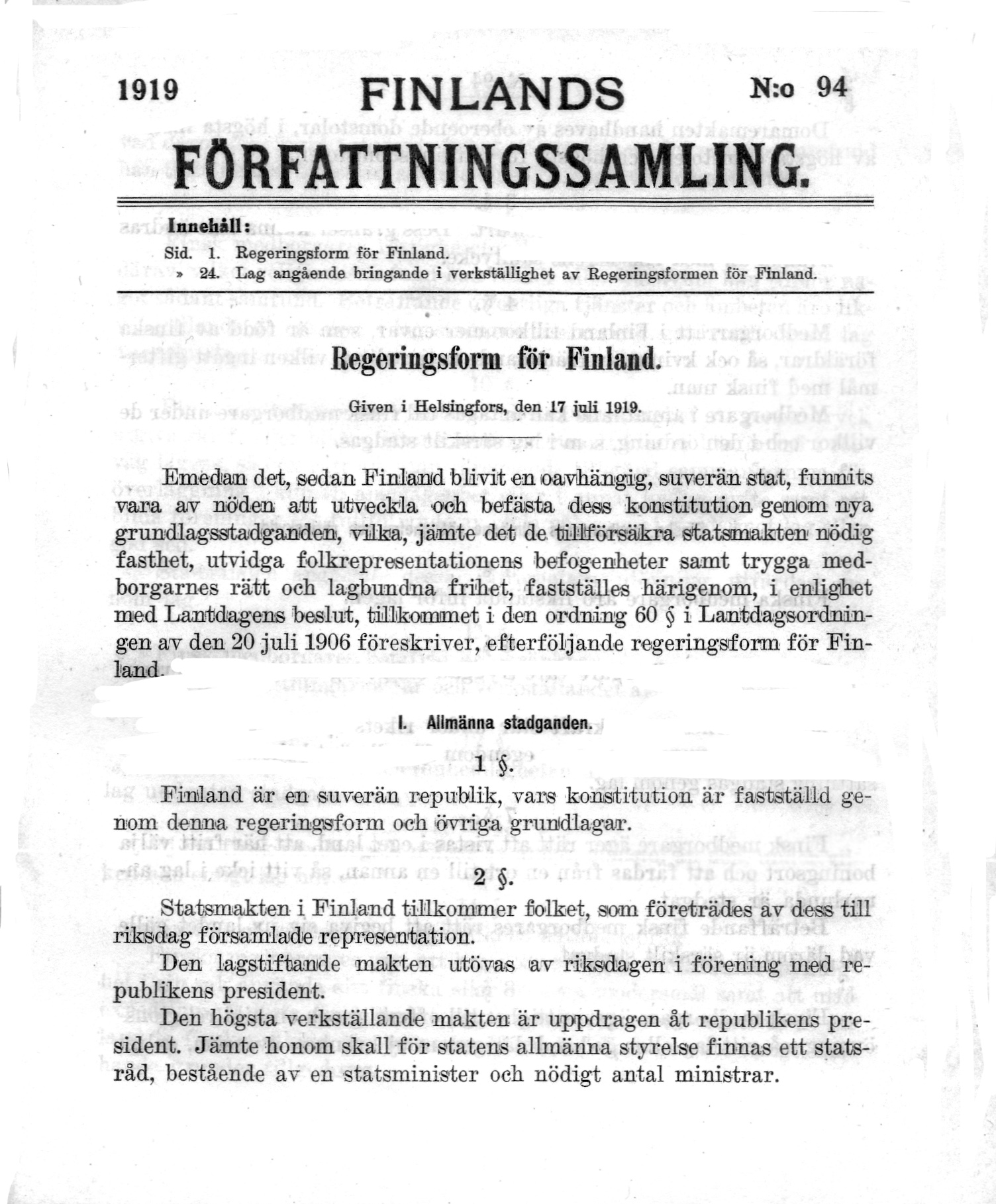 The first page on the Finnish Constitution of 1919 in Swedish language.